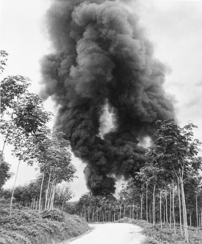 A column of smoke from burning rubber rises over the trees on a Malayan rubber plantation during the British retreat to Singapore. December 1941